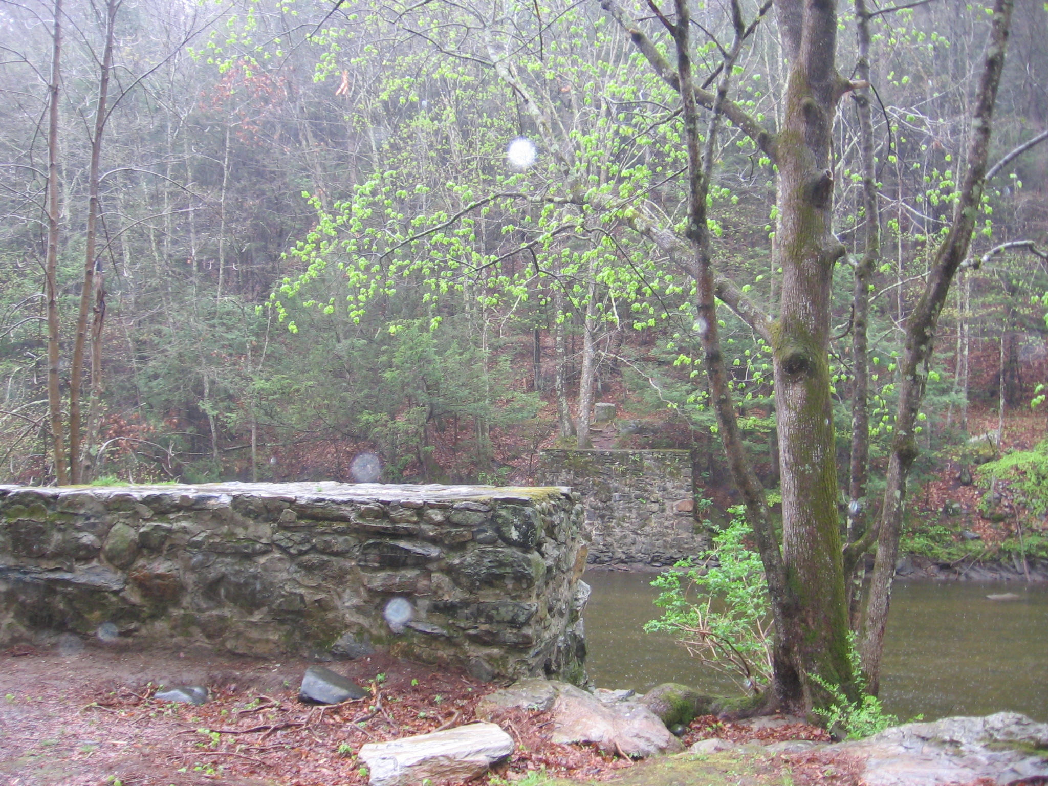 The anchorages for the former pedestrian suspension bridge over the Shepaug River for passengers using the Valley Station along the Shepaug, Litchfield and Northern Railroad. The station was in use during the 1900s (first decade of the 20th century).